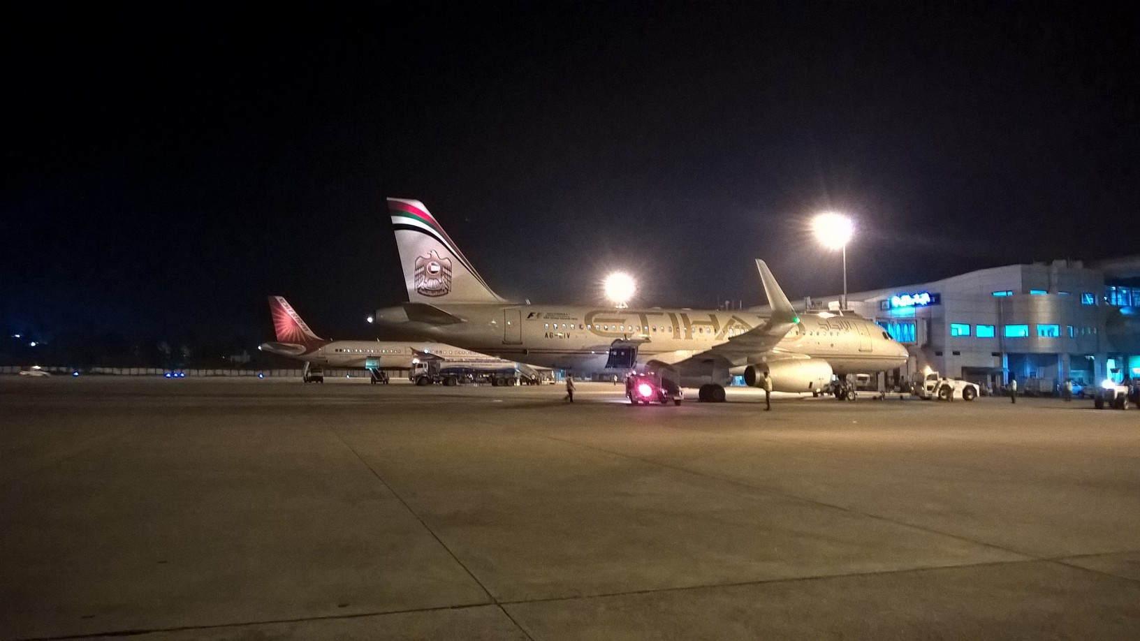 Etihad Airbus A320 and Air India Airbus A321 Parked at Trivandrum International Airport